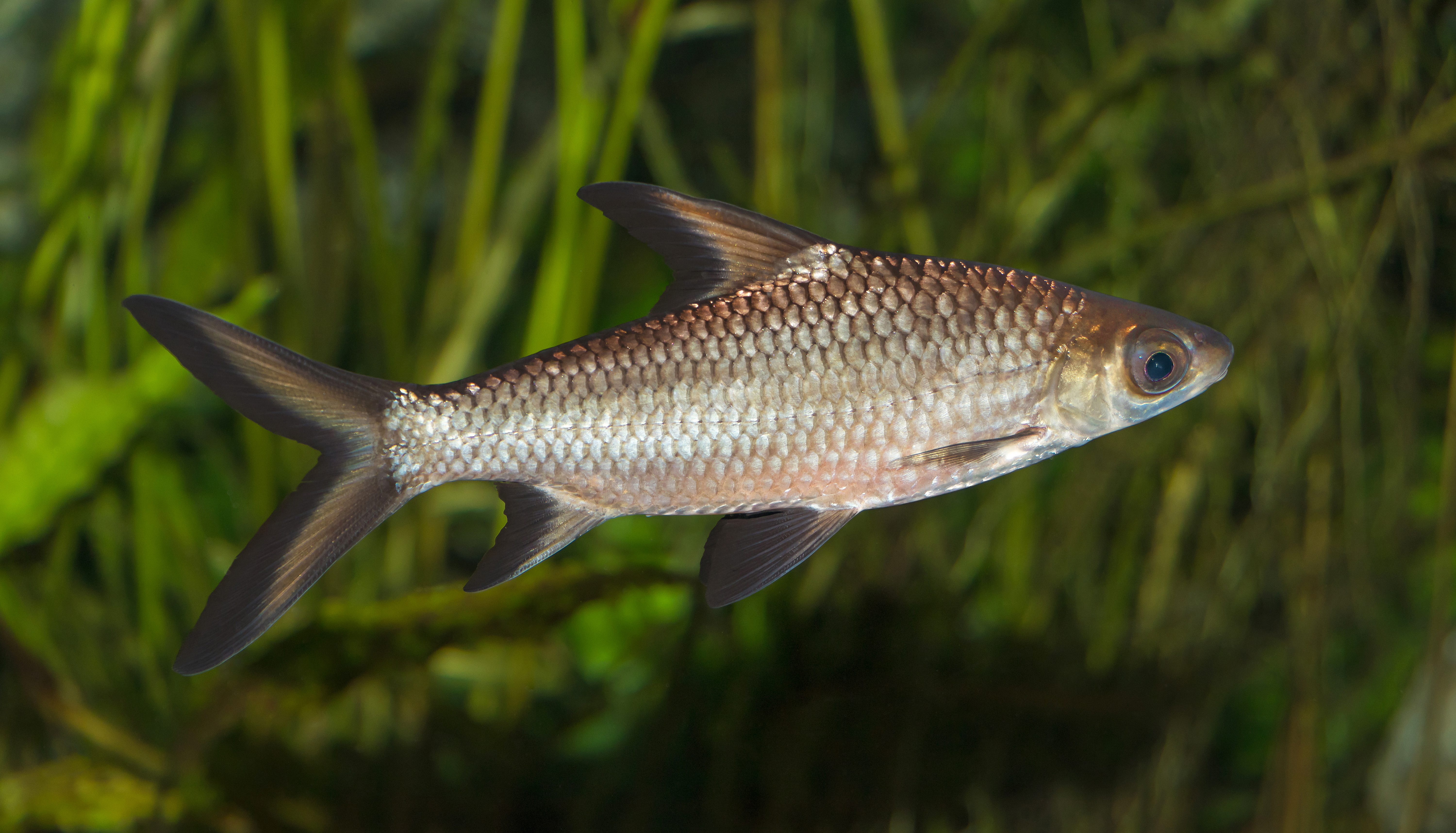 Balantiocheilos melanopterus (Bleeker, 1851), Bala shark; Karlsruhe Zoo, Karlsruhe, Germany.